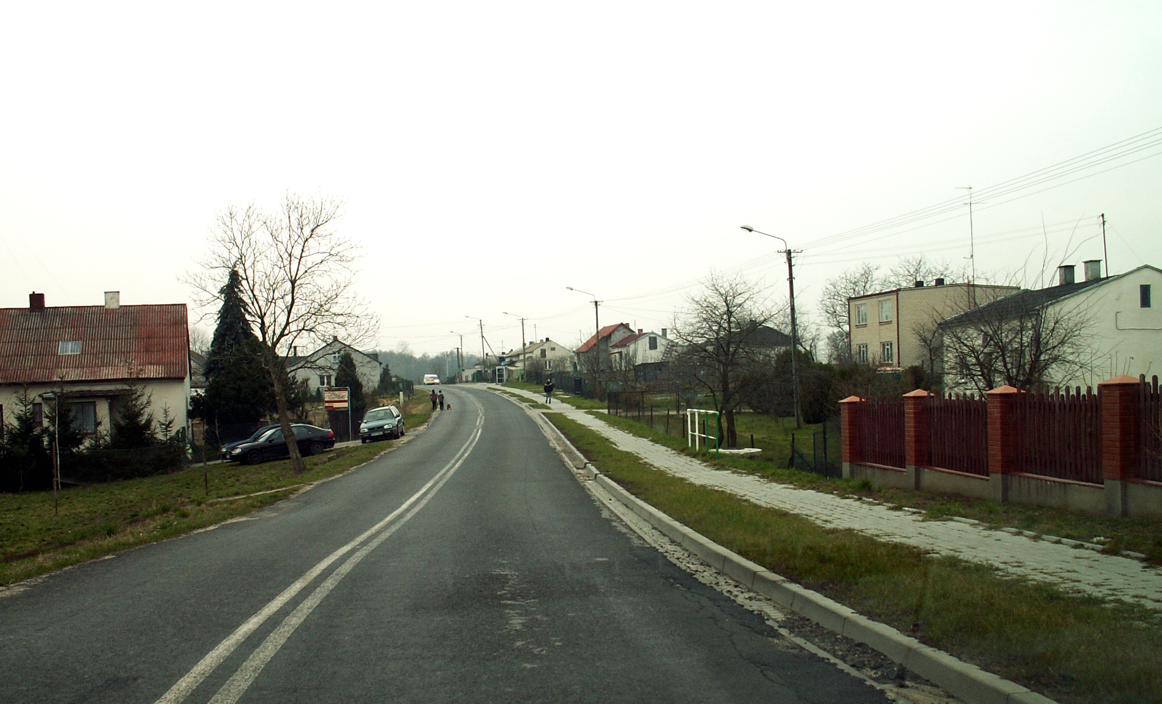 Swiesz - centrum village - sight from Byton side